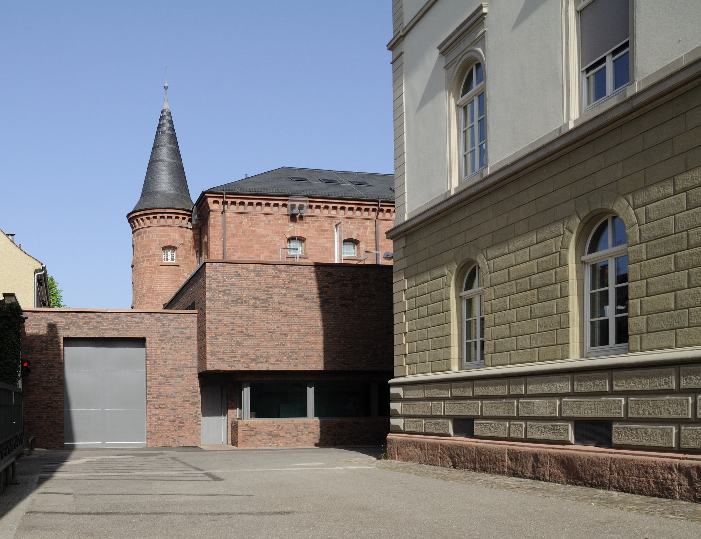 Lörrach: prison